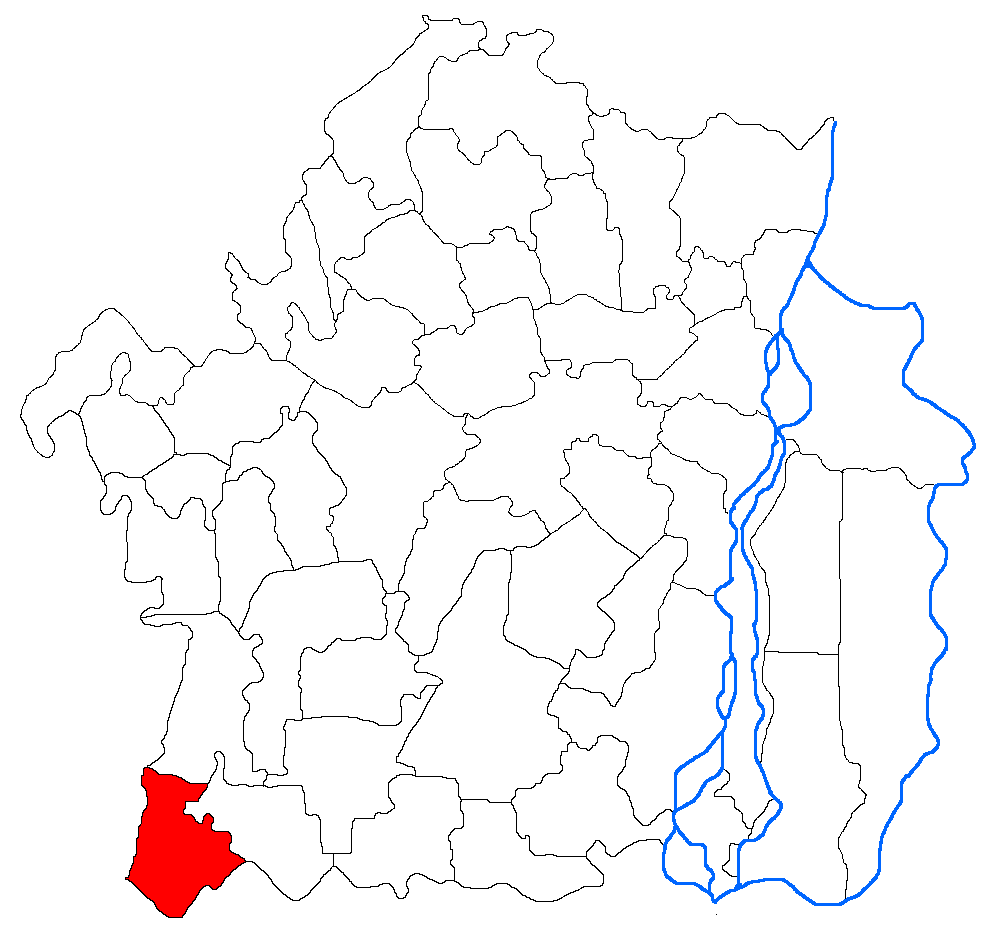 Limits of Commune of Ciocile in Braila County